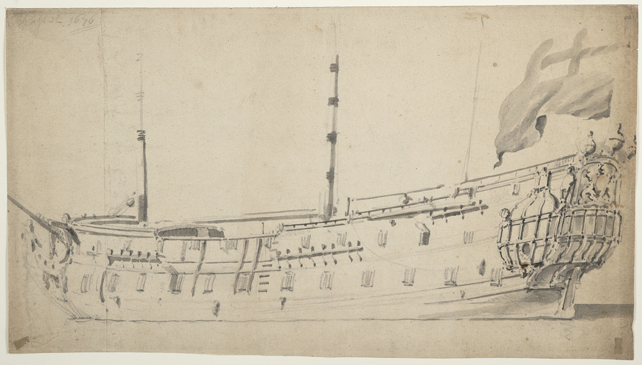 Portrait of the ‘Newcastle’, fourth rate, 54 guns. She was built in 1653, rebuilt in 1692 and wrecked in 1703. She is viewed from abaft the port beam. The castle over the quarter-gallery identifies the ship as the ‘Newcastle’ with reasonable certainty as no other ship of the same size has a name appropriate to a castle. The two other drawings in the National Maritime Museum inscribed ‘kastel’ (PAG6236, PAF6935) are of a different ship. It is freely and accurately drawn without the assistance of an offset.